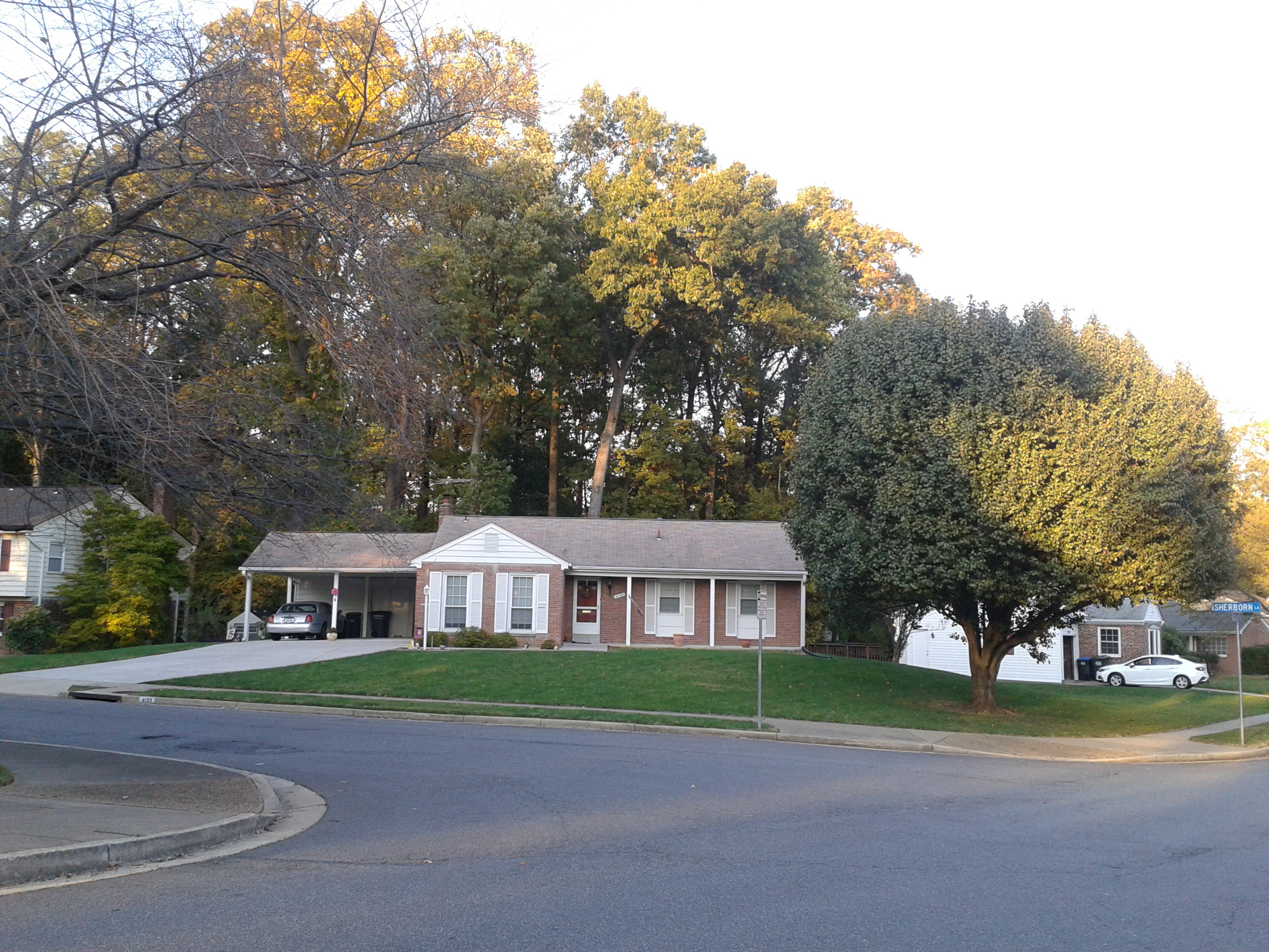 Taken by me in October, 2016